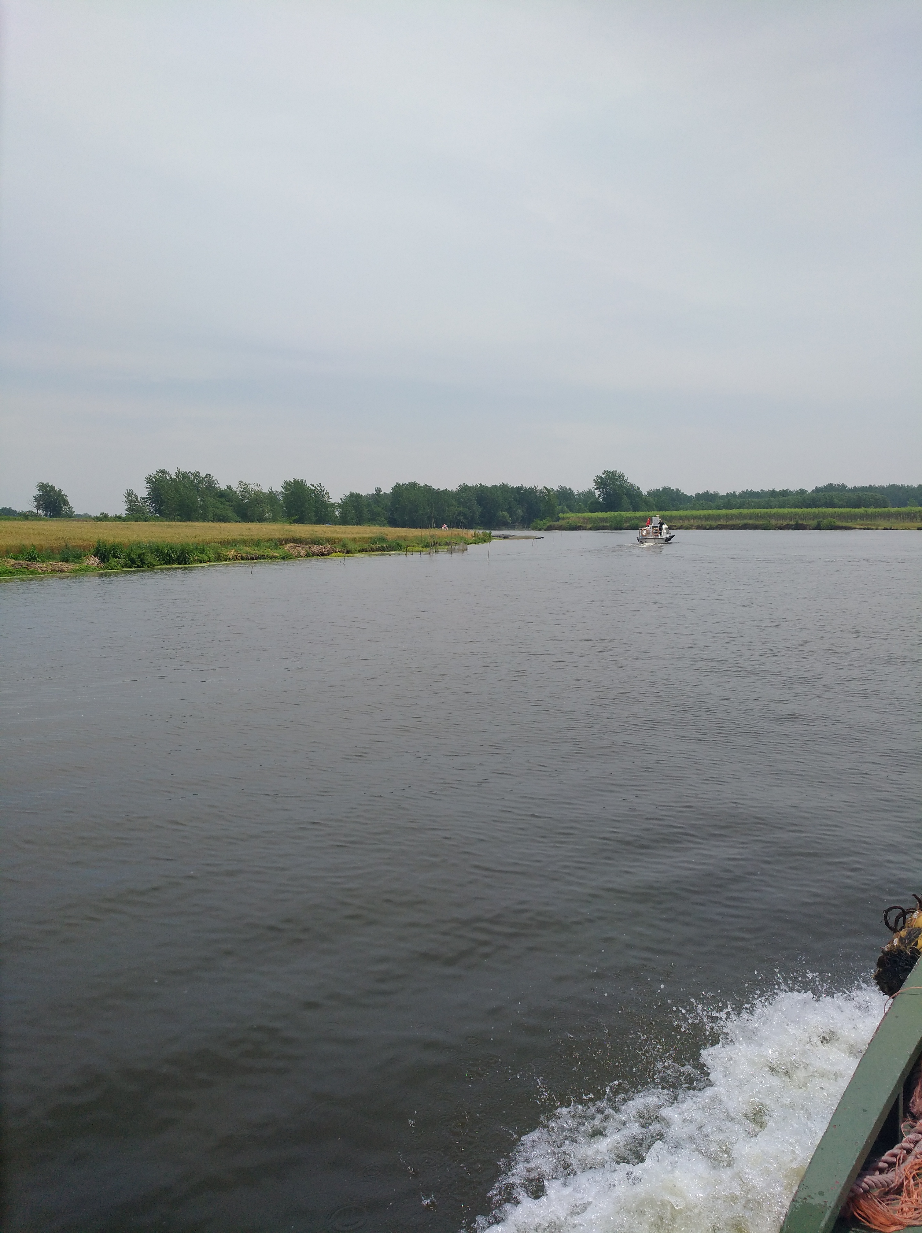 Quan River photoed in Fuyang ,Anhui province,China,2017.05.18 11:53 a.m